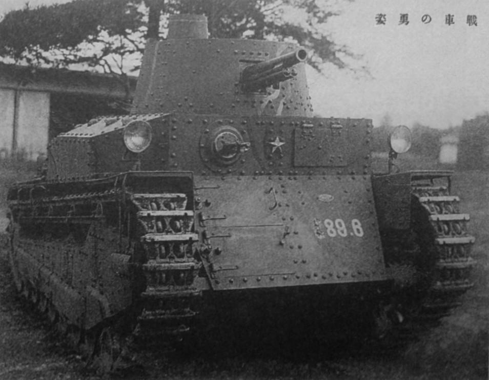 Imperial Japanese Army Type 89 medium tank Ko early model.